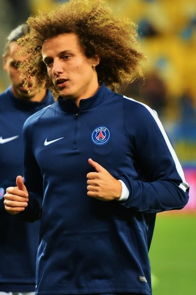 David Luiz